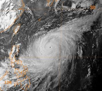 Super Typhoon Rosie on July 22, 1997